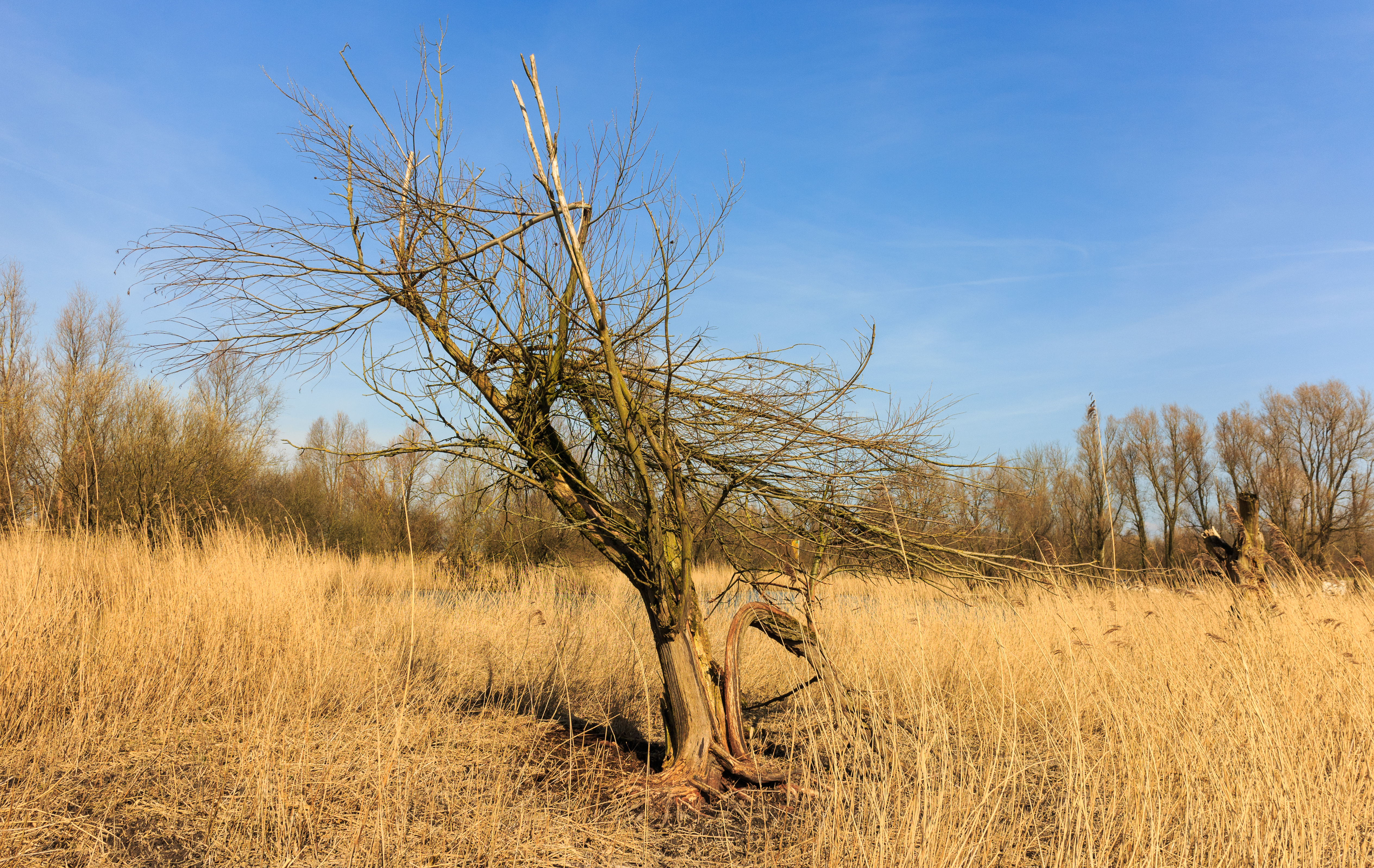 Trees are struggling in the windy weather at the former seabed. Location, Oostvaardersplassen in the Netherlands.